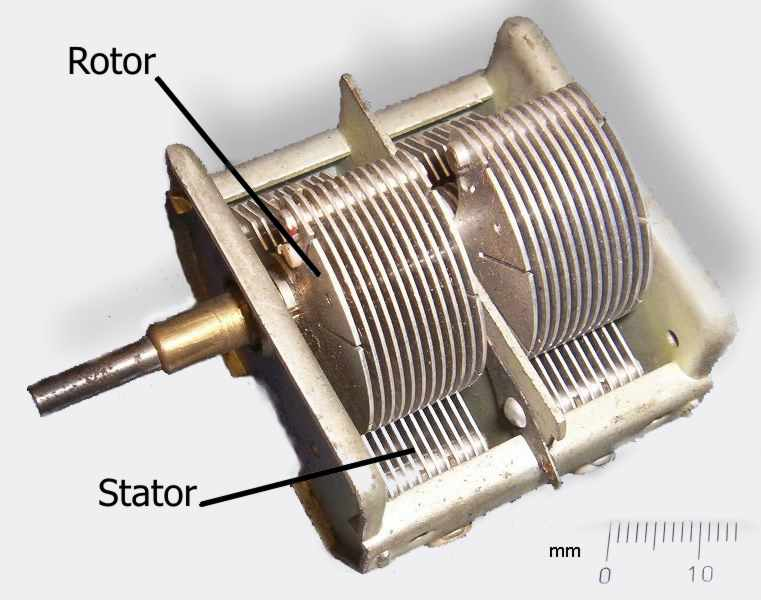 Two section variable capacitor, used in superhet receiver